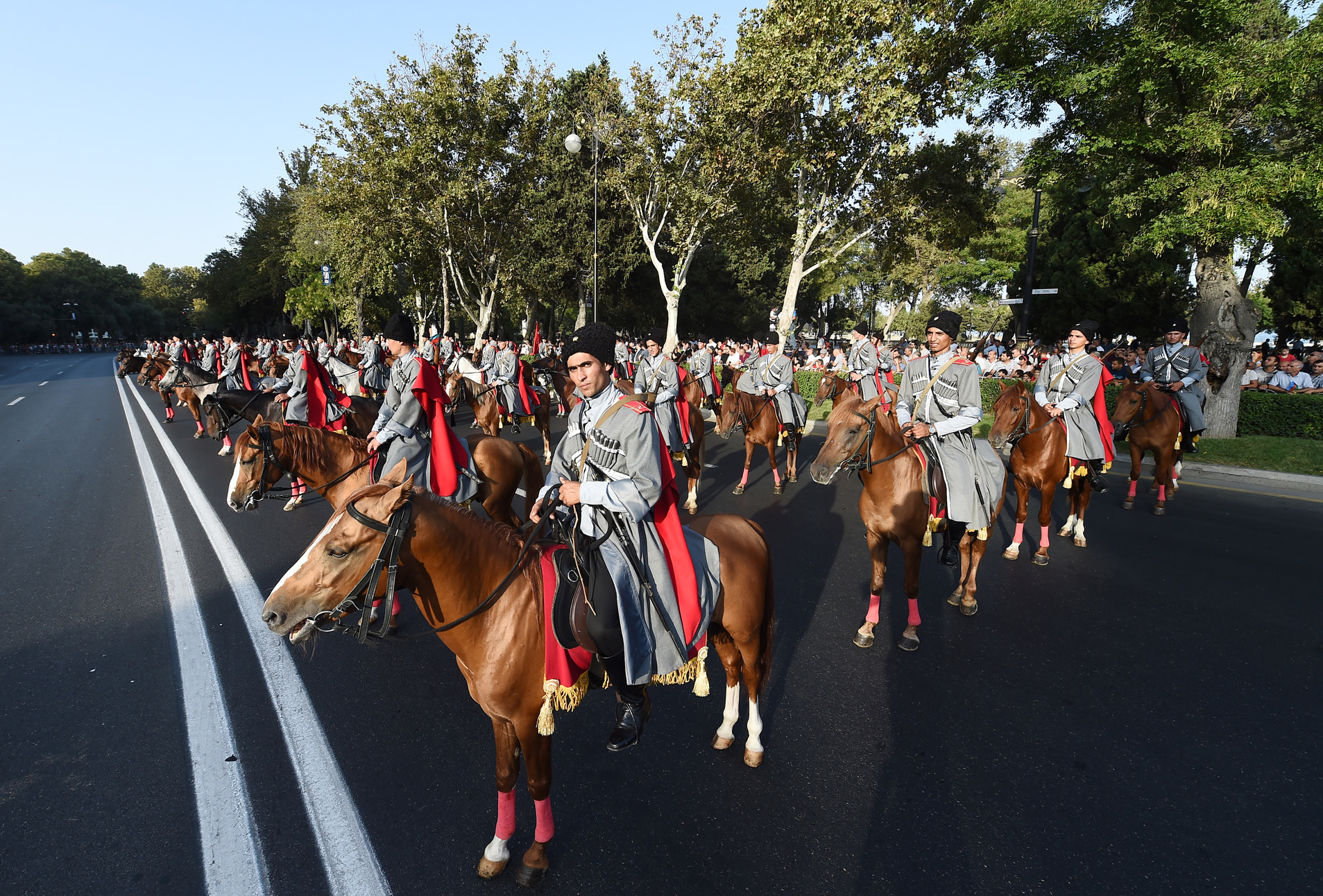 Ilham Aliyev and Recep Tayyip Erdogan attended the parade dedicated to 100th anniversary of liberation of Baku